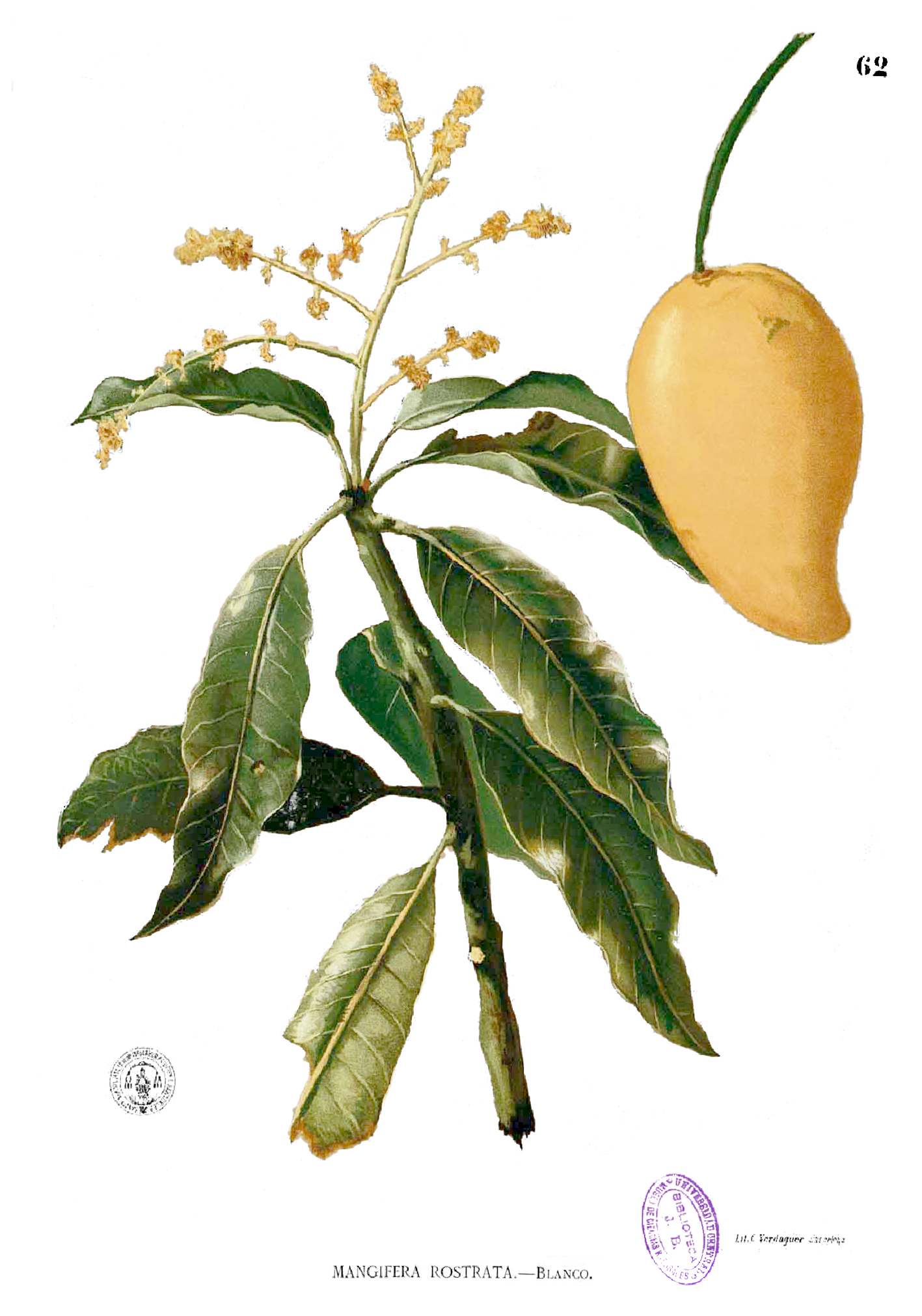 Mangifera sylvatica Plate from book